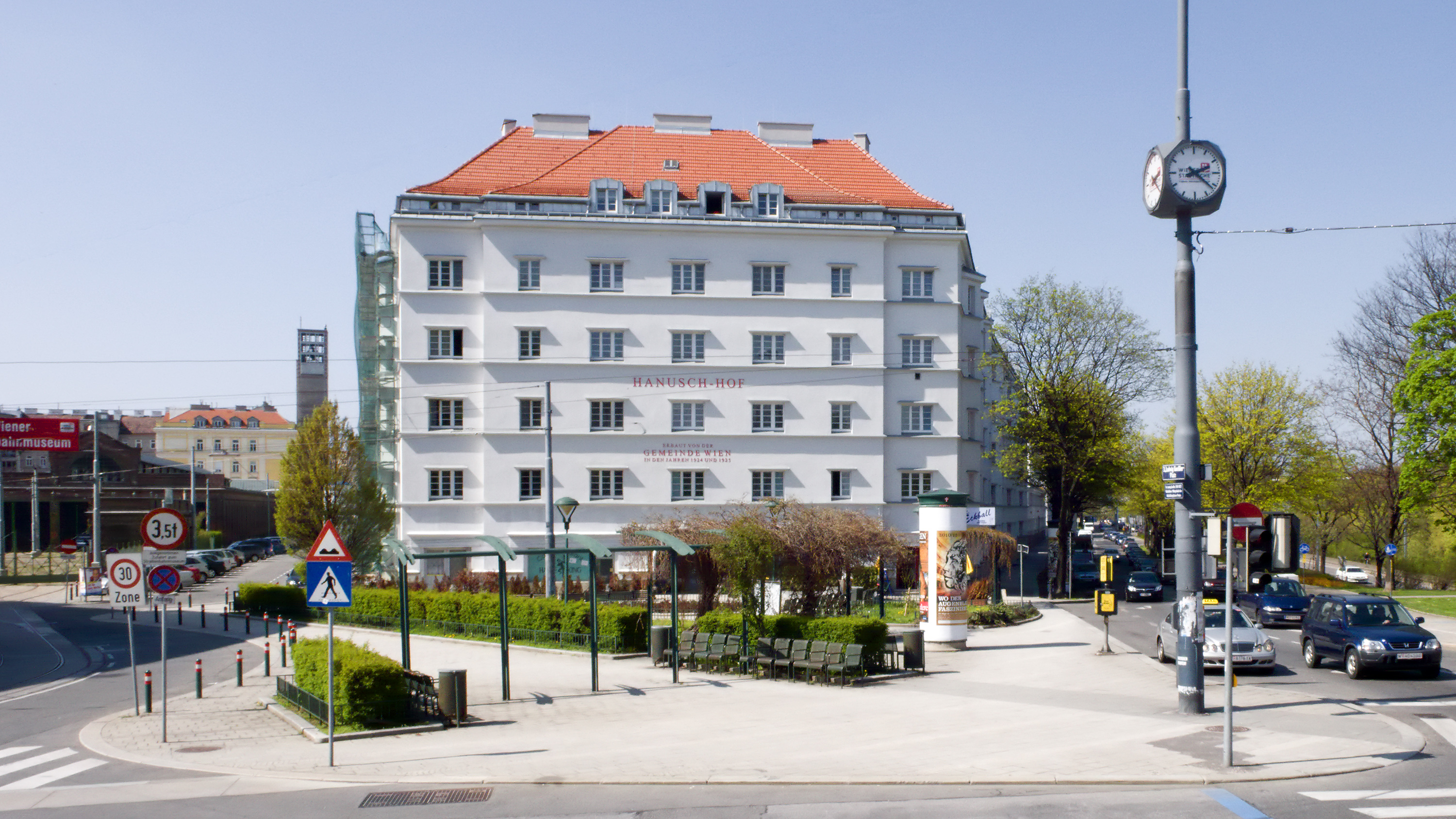 Ludwig-Koeßler-Platz in Vienna Landstraße